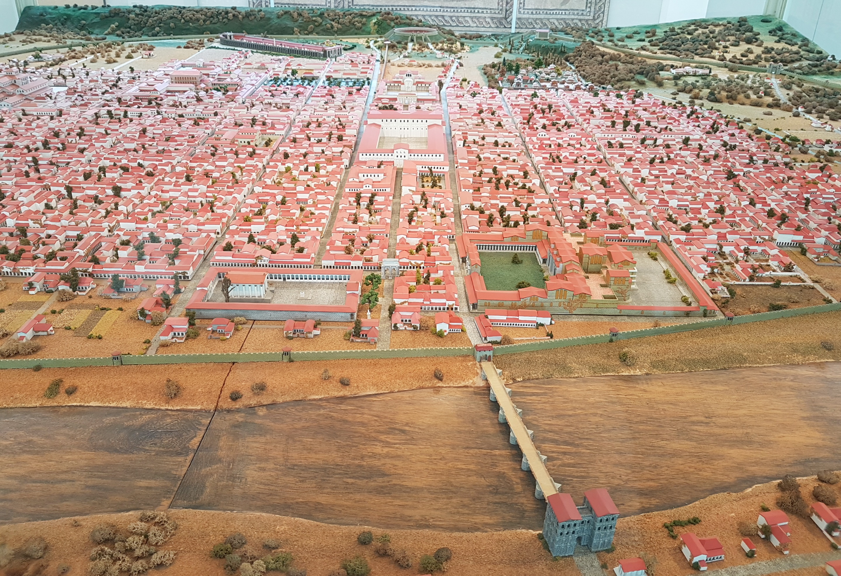 Scale model of the Roman city of Trier (Augusta Treverorum) in the collection of Rheinisches Landesmuseum Trier, Germany. In the foreground the river Mosel with the Roman bridge (which has survived) and the western city gate Porta Inclyta. Along the river are two temple complexes: the temple of Asclaepius on the left and the one dedicated to lenus-Mars on the right. In the centre if the forum. In the background the amphitheatre and circus, of which ruins survive.